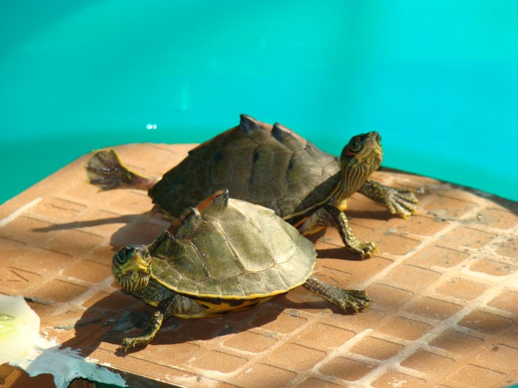 KeyursBaskingTurtles2